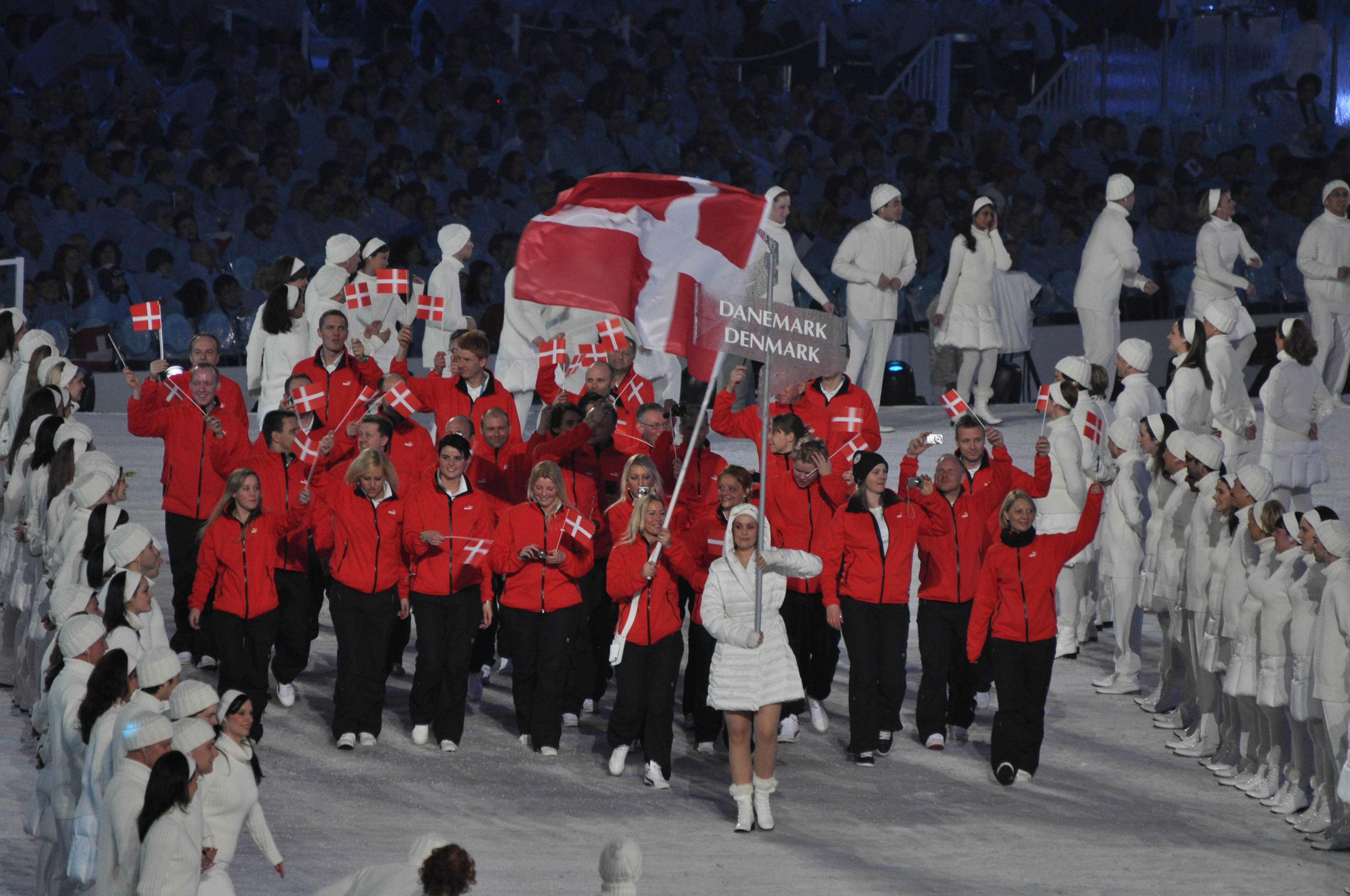 Olympic March (19 of 99)